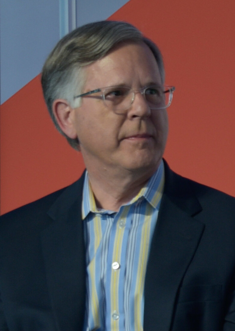 ASPEN, Co. - Secretary of Homeland Security John Kelly participates in a moderated conversation with NBC’s Pete Williams at the Aspen Security Forum July 19, 2017 in Aspen Colorado. During the event, he discussed his leadership of the department. Official DHS photo by Jetta Disco.